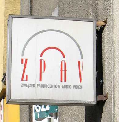 Banner of Audio-Video Producers Association in Warsaw